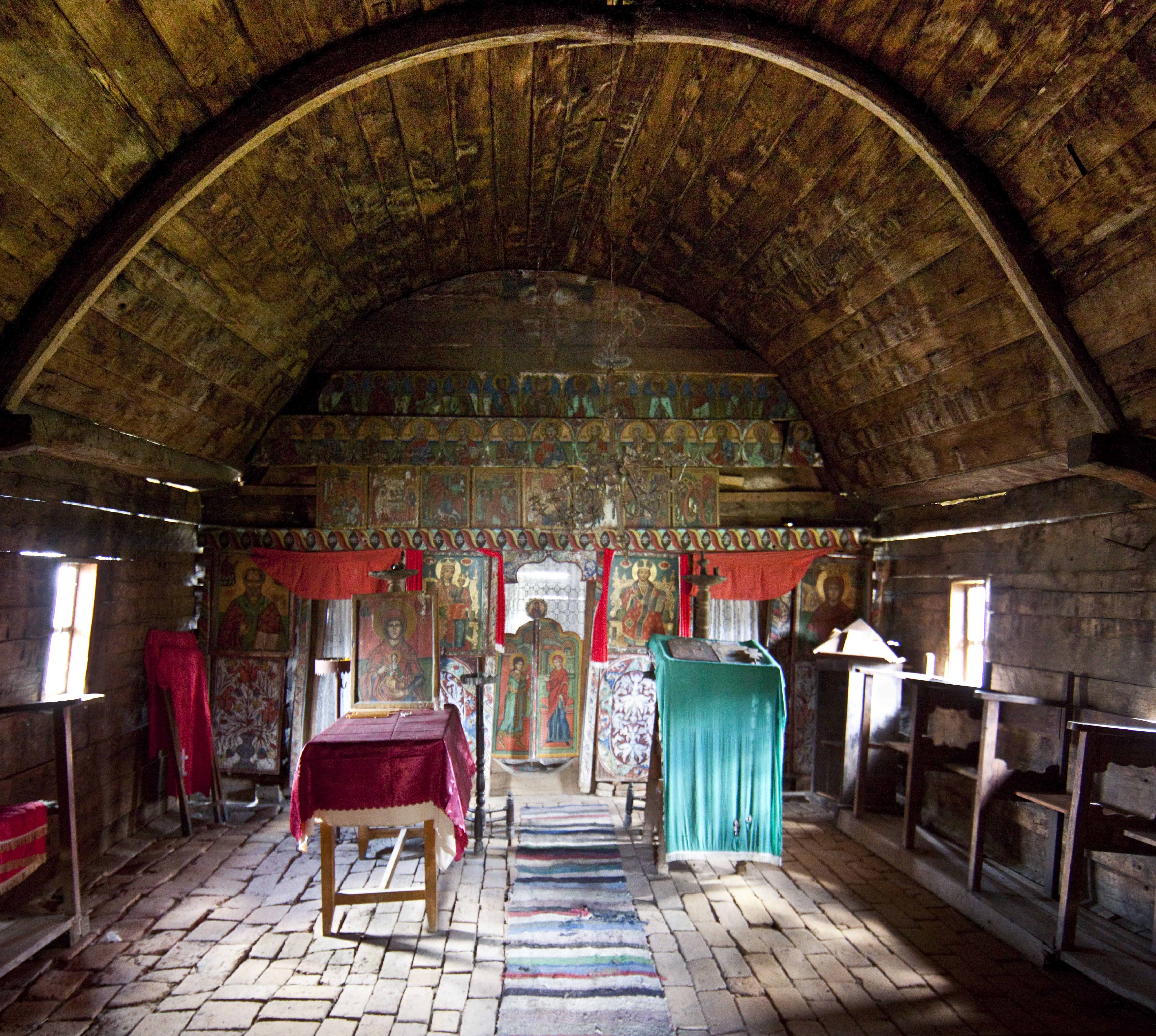 Ioaniceşti-Găbrieni, Argeş county, Romani: the wooden church.